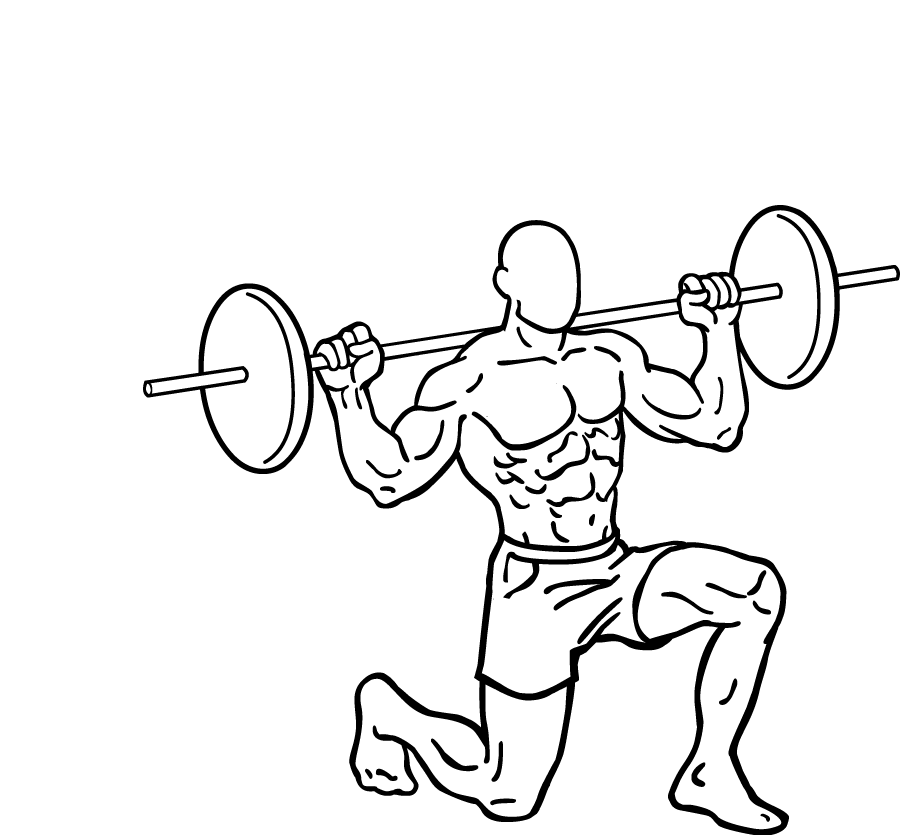 an exercise of hip